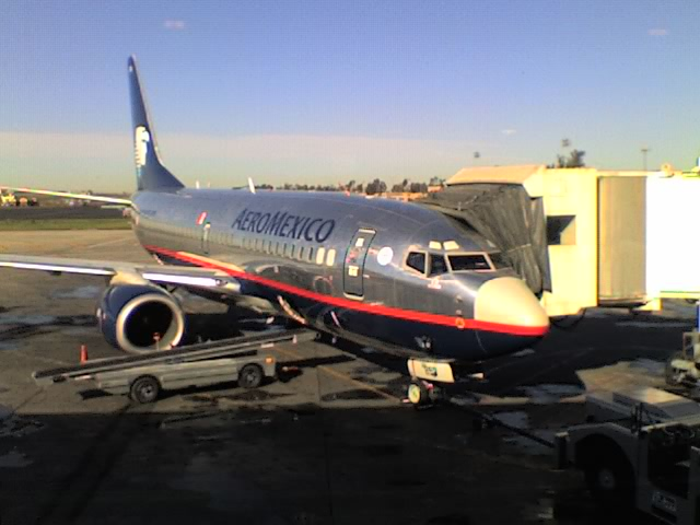 An Aeromexico's B-737 at TIJ.